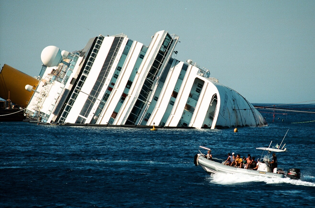 View of the MS Costa Concordia shipwreck. Shot with Practika BC-1 on Ektar 125